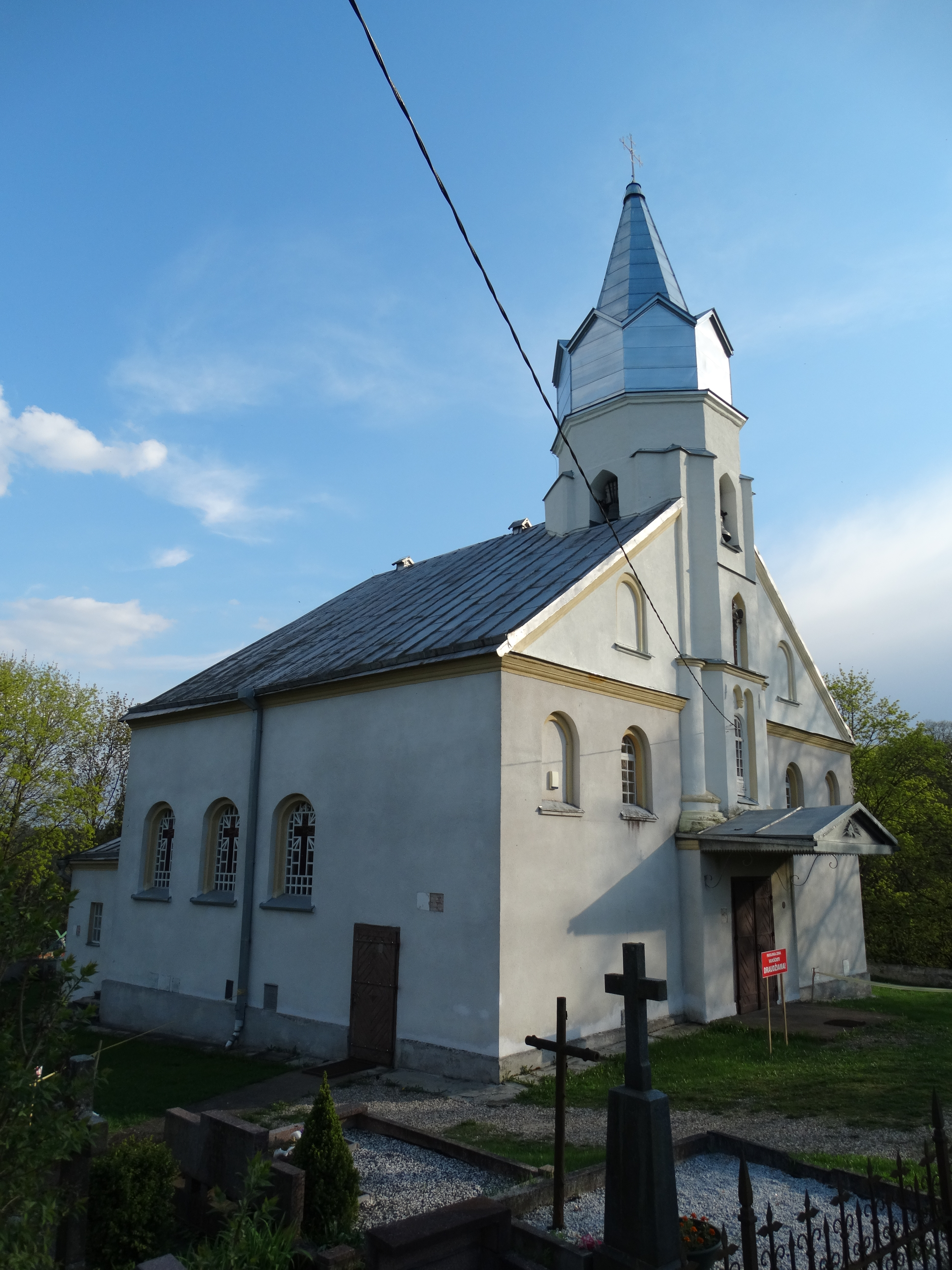 Saint John the Baptist church in Lapės, Kaunas district, Lithuania